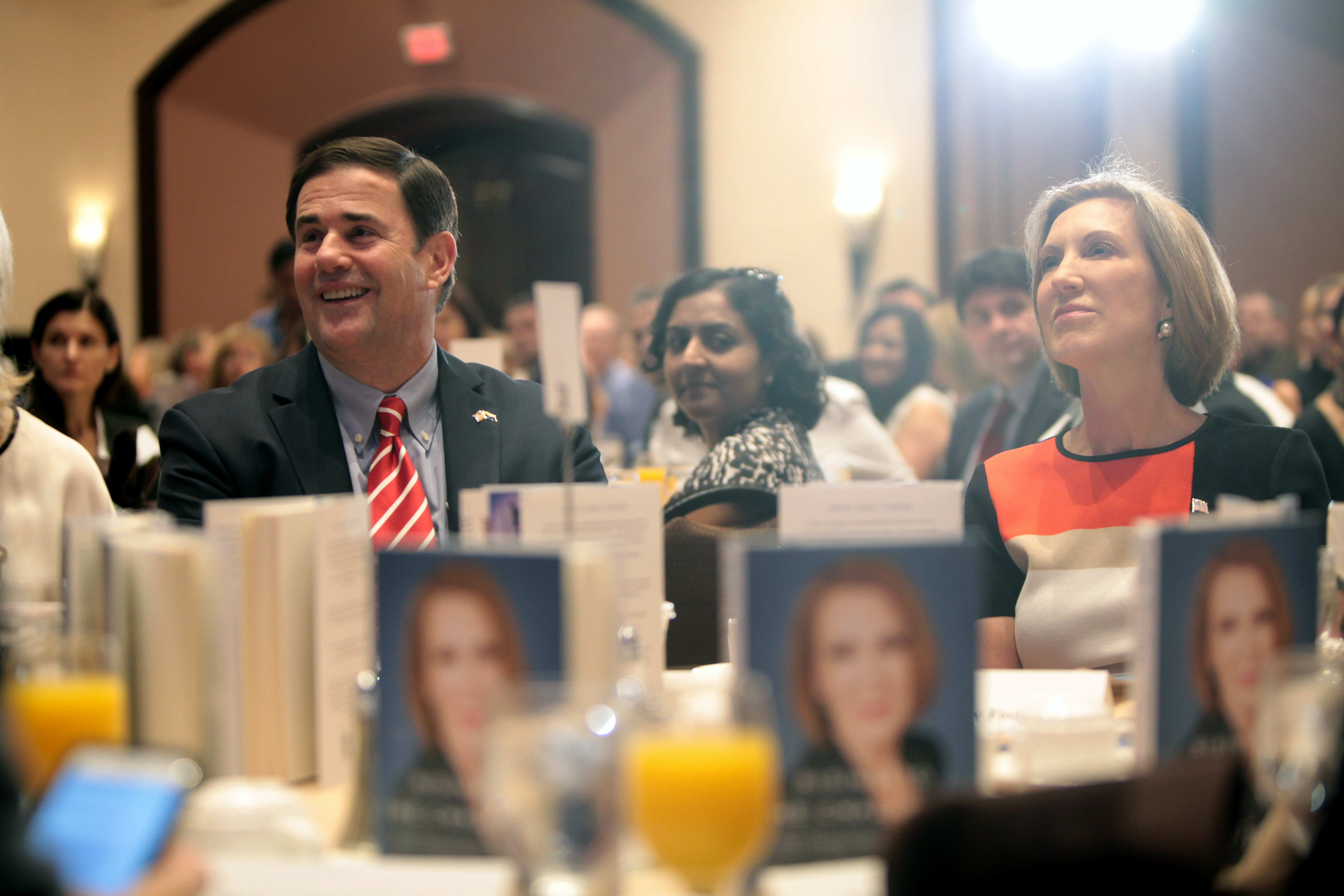 Governor Doug Ducey and Carly Fiorina speaking at the Arizona Chamber of Commerce & Industry's Leadership Series breakfast in Scottsdale, Arizona.